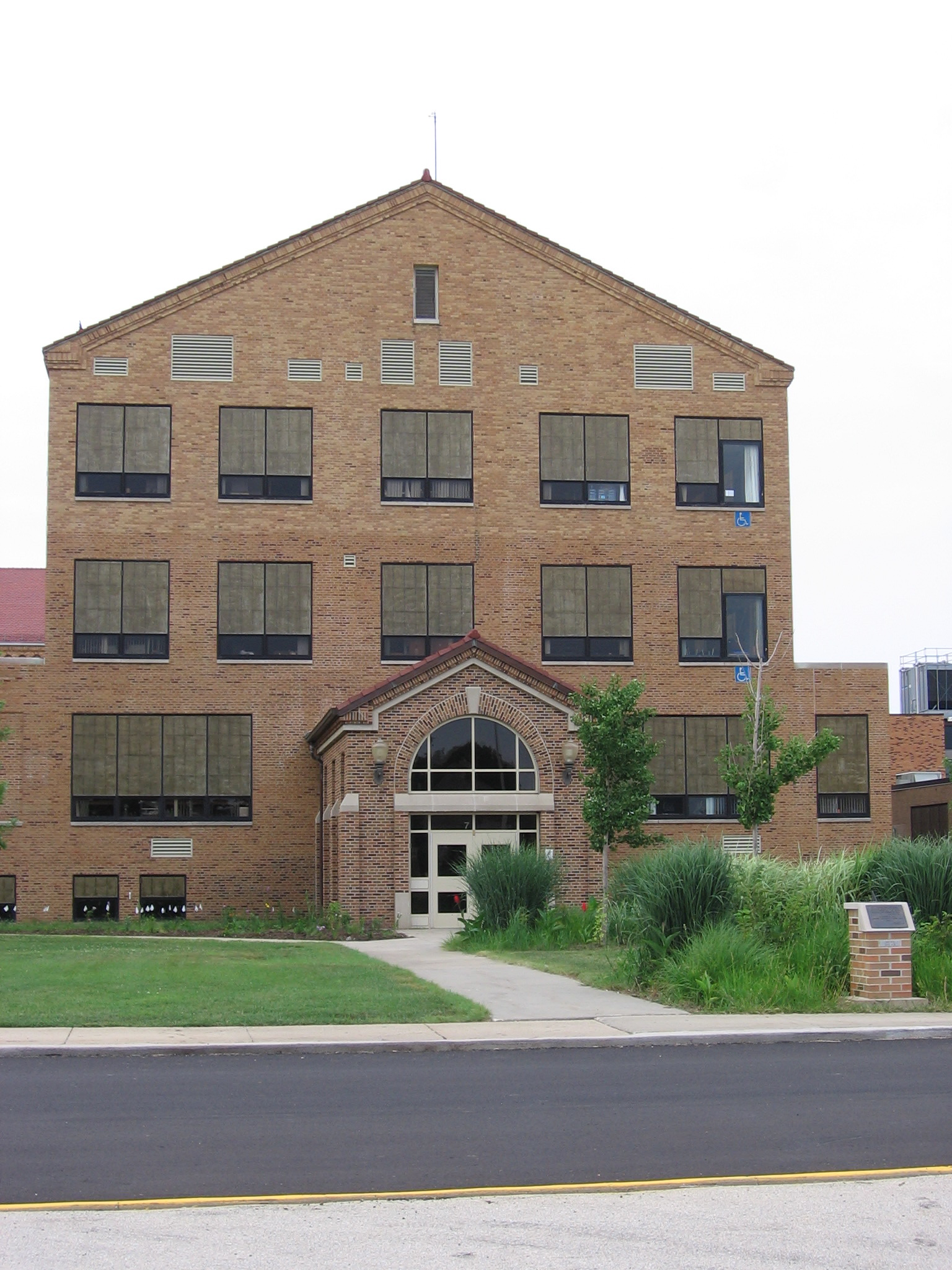 This is a photograph of the rear entrance of Maine East High School, a public secondary school in Park Ridge, Illinois.